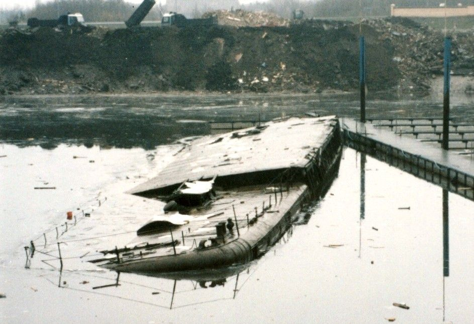 'City of Adelaide' underwater in Princes Dock, Glasgow